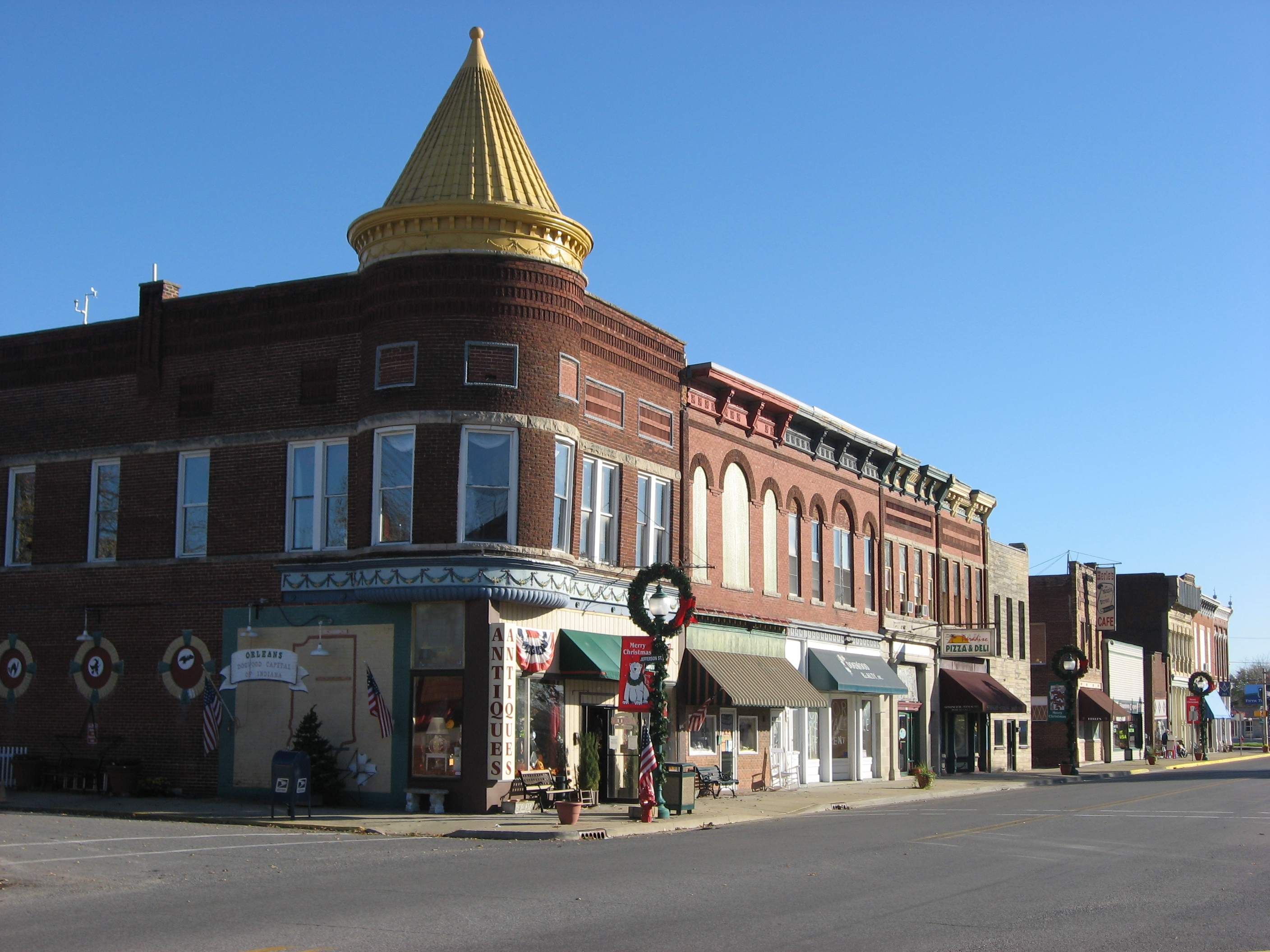 Buildings on the eastern side of the 100 block of S. Maple Street (State Road 37) in Orleans, Indiana, United States. This block (built largely in 1897 and 1898 following a fire) is part of the Orleans Historic District, a historic district that is listed on the National Register of Historic Places.